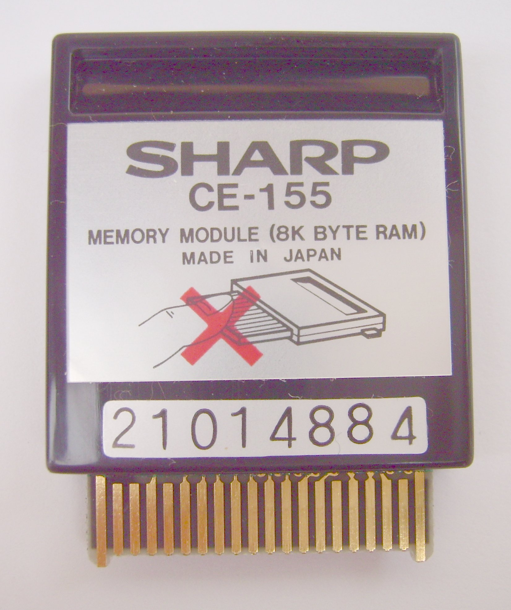 The memory module (8kB) of a Sharp PC-1500.